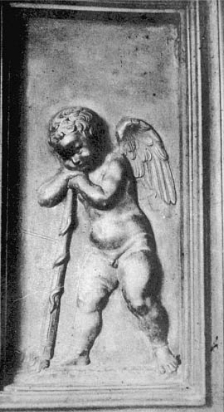 Mourning Genius, bronze relief by Lorenzetto, originally in the Chigi Chapel in Santa Maria del Popolo until c. 1655. Later in the collection of the Chigi family, and photographed by Adolfo Venturi (1856-1941) in 1902. The artwork itself was apparently lost later, only the photograph survived.